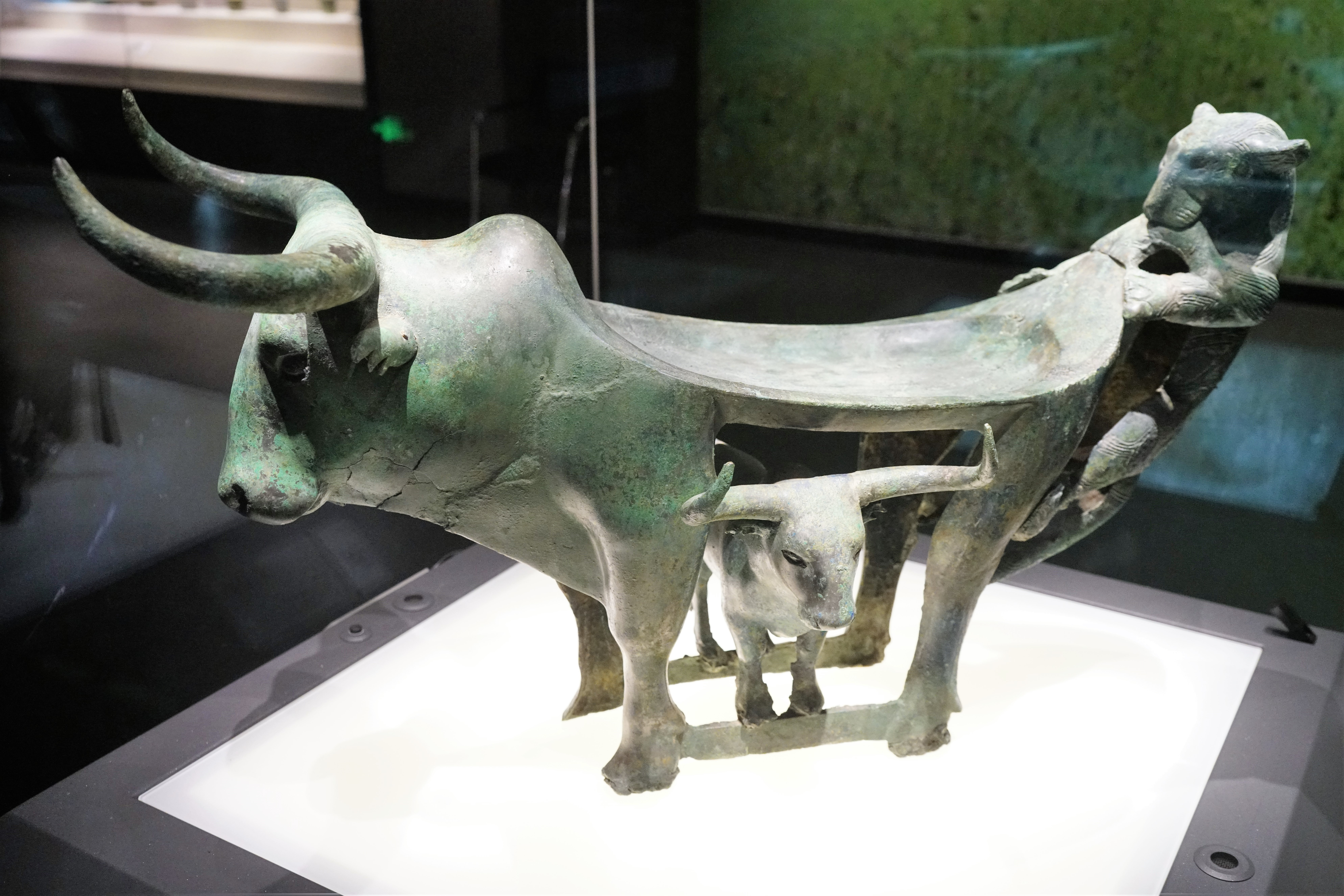 Bronze Table with Figurines of Tiger and Oxen